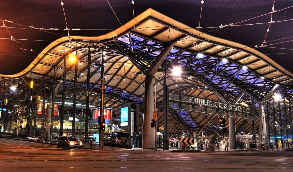 Southern Cross Station, Melbourne